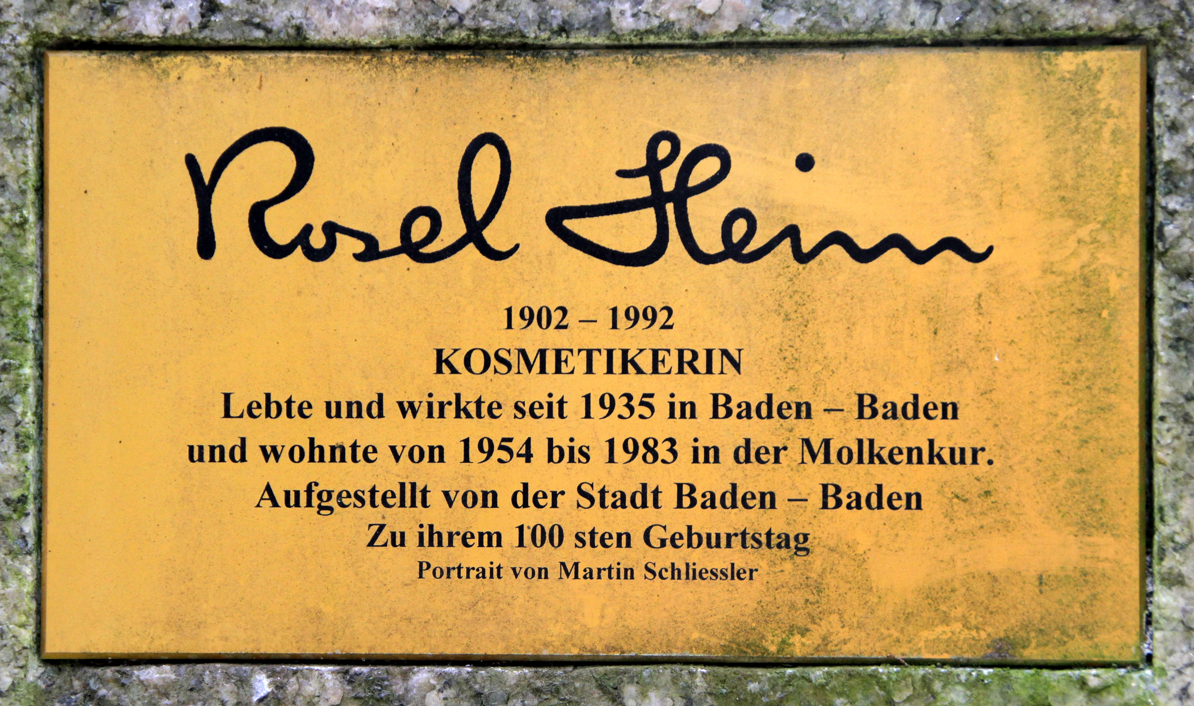 Bust of the beautician Rosel Heim by Martin Schliessler (2002) in Quettigstraße in Baden-Baden.